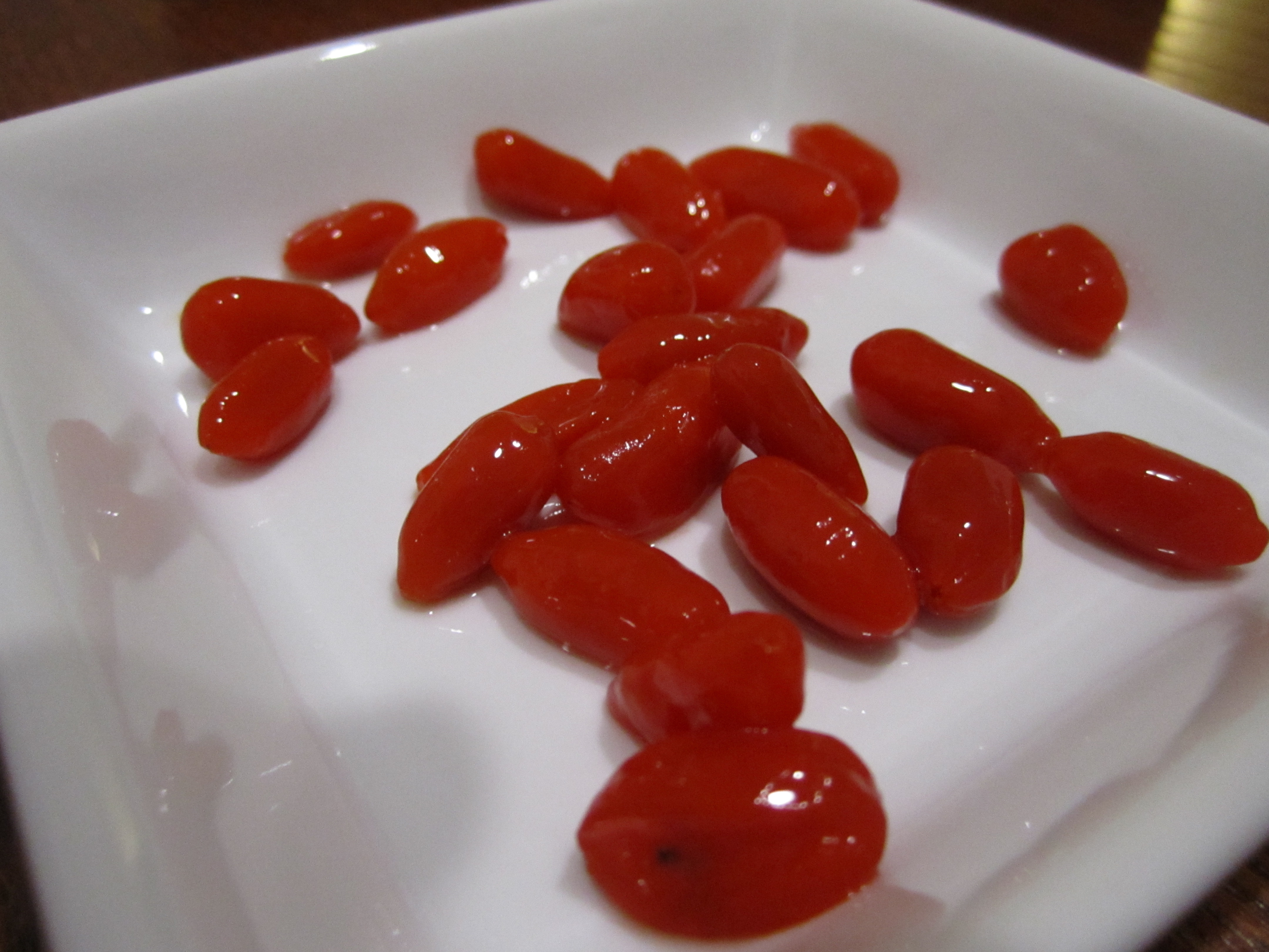 Formerly frozen goji berries